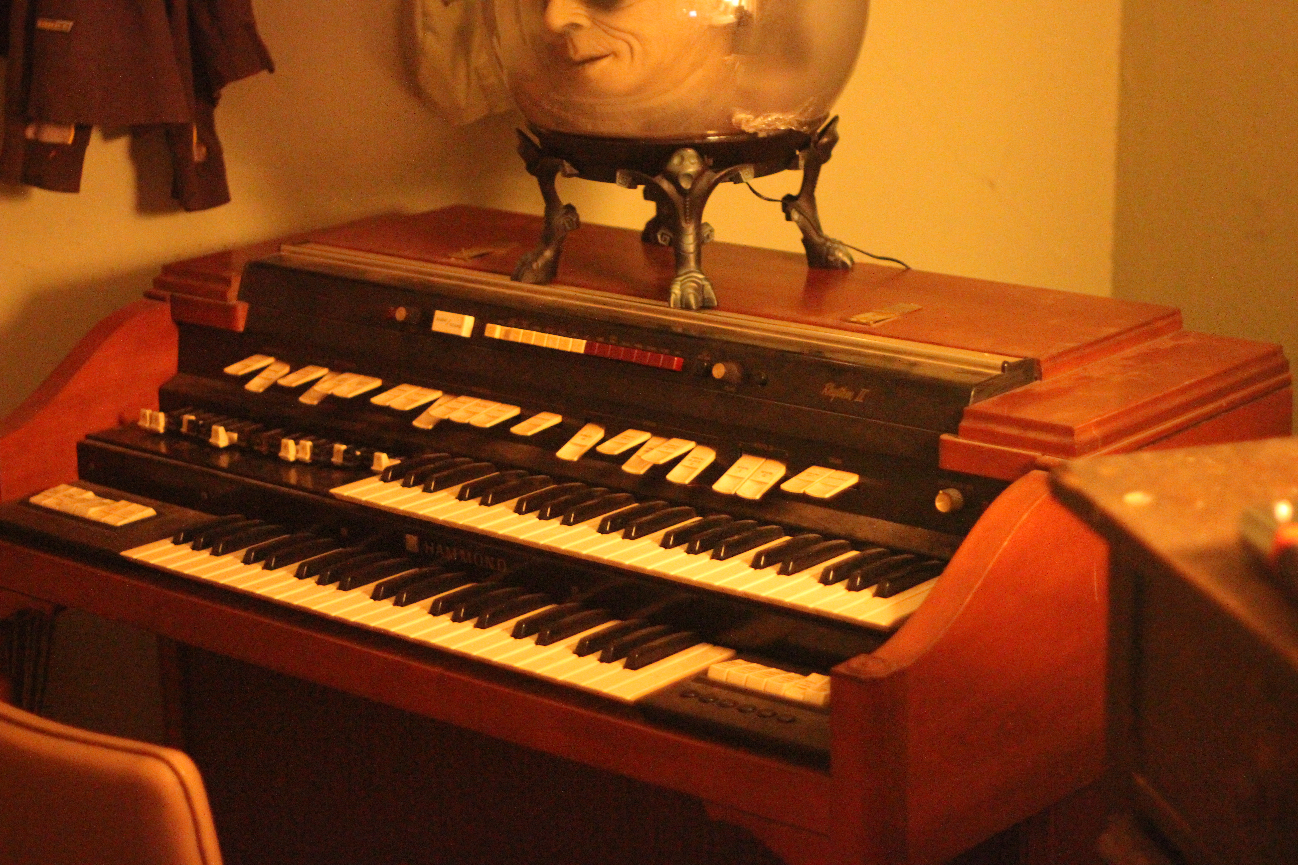 Hammond T-400 series with Rhythm II